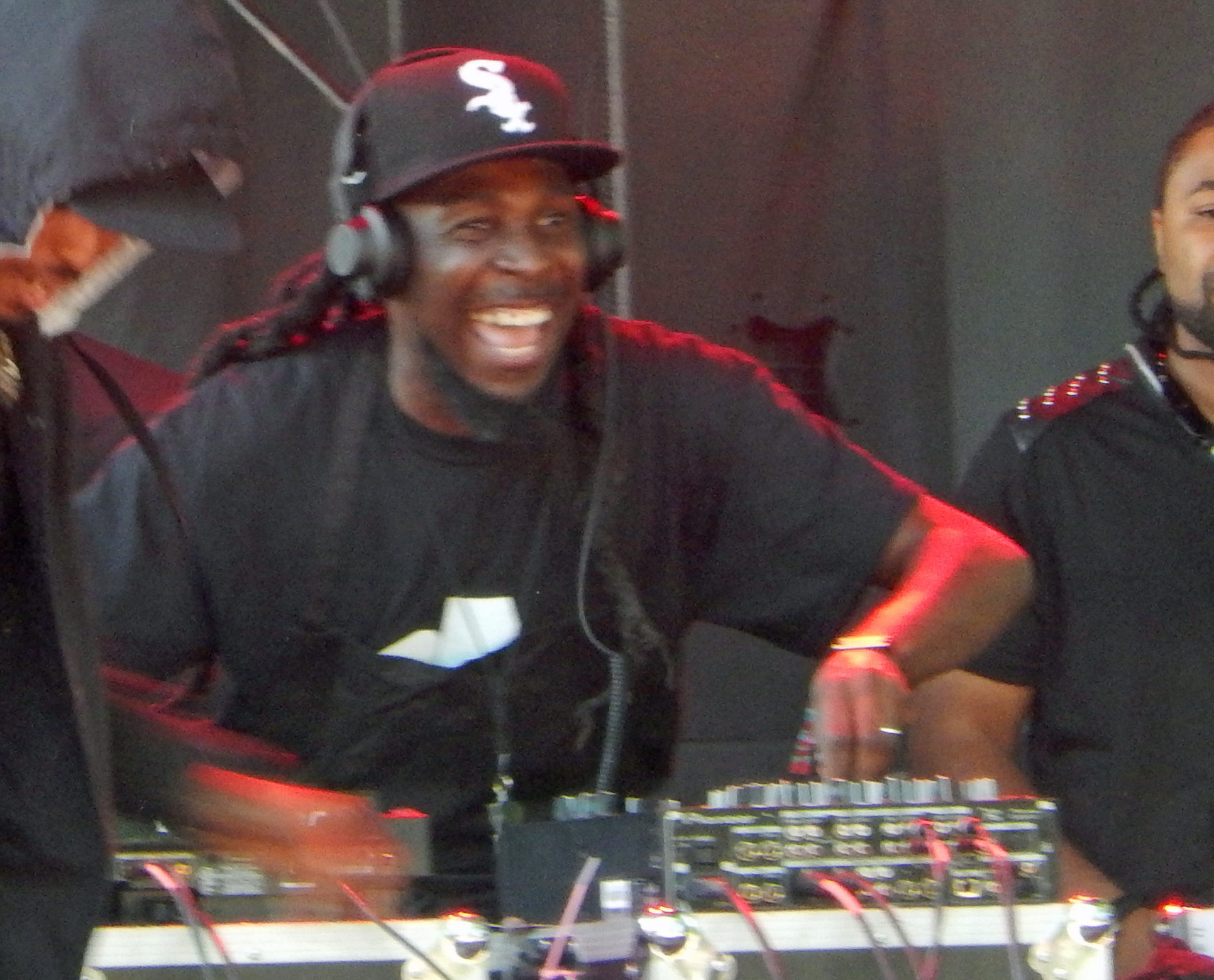 RP Boo (footwork artist) performing at Pitchfork in Chicago